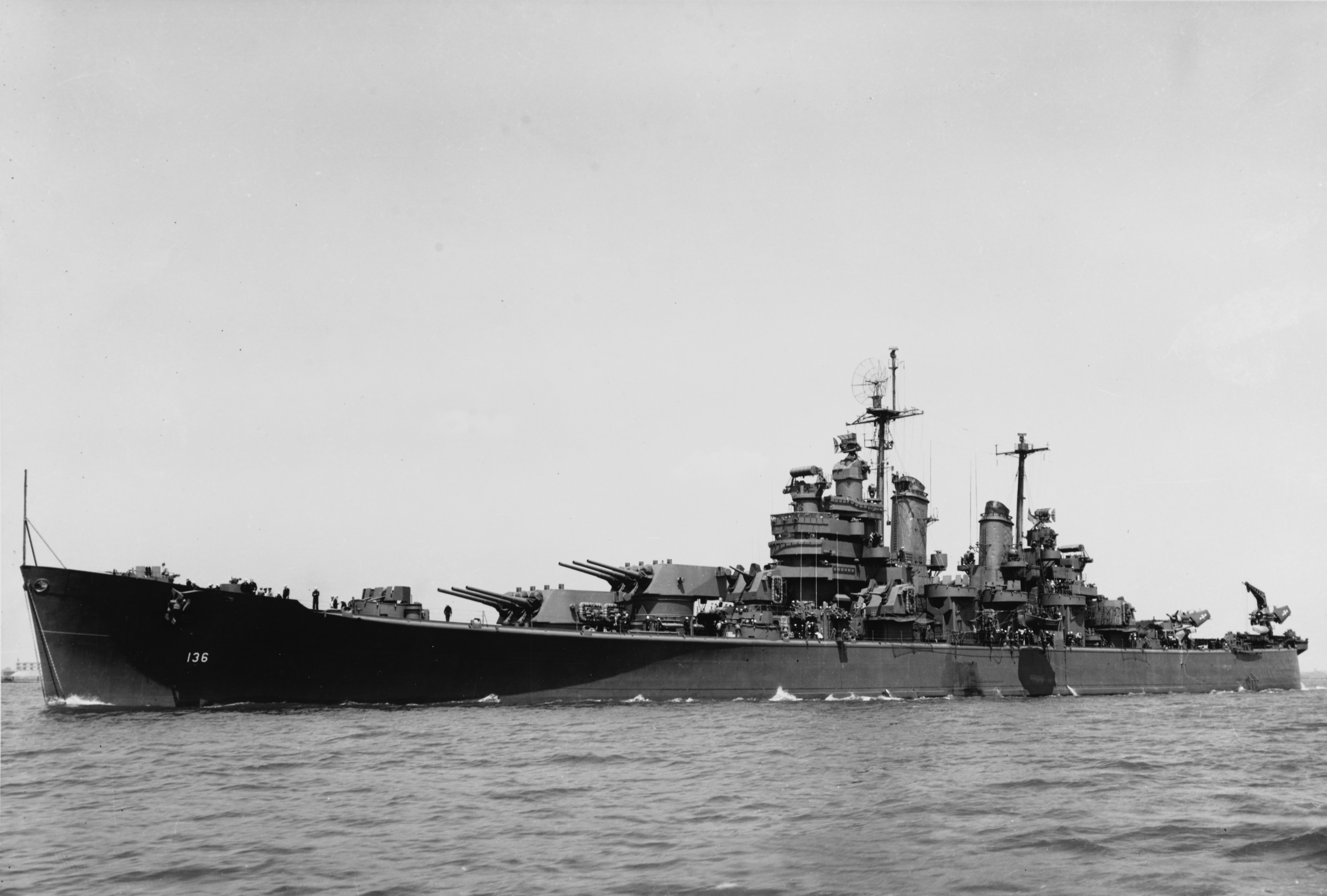 The U.S. Navy Baltimore-class heavy cruiser USS Chicago (CA-136) off the Philadelphia Naval Shipyard, Pennsylvania (USA), on 7 May 1945. Note Curtiss SC-1 Seahawk seaplanes on the catapults and her Measure 21 camouflage paint. Chicago was commissioned only for 1 1/2 years before joining the reserve fleet. She was converted to a guided missile cruiser from 1959 to 1964 and finally decommissioned in 1980.